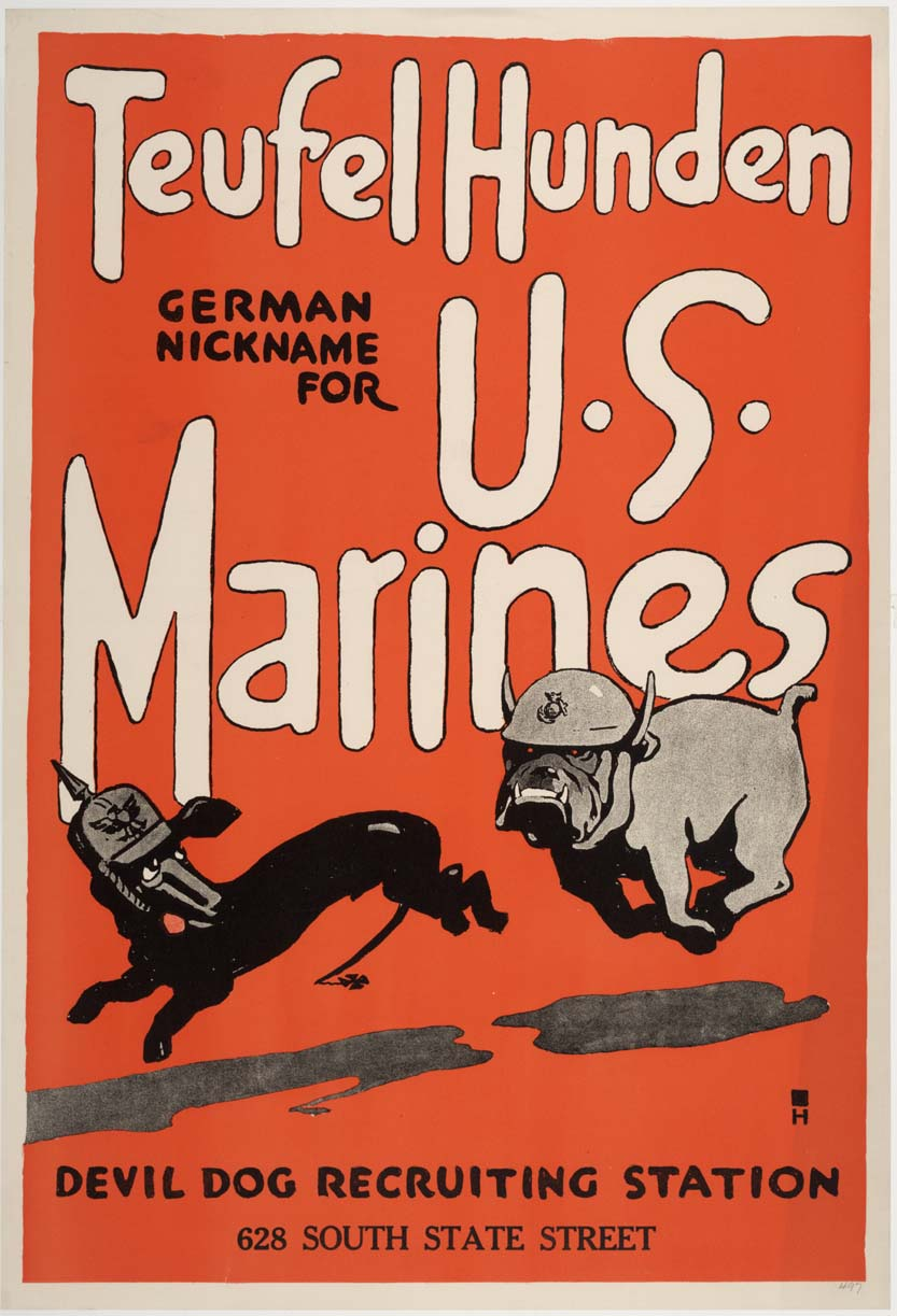 United States Marine Corps (USMC) World War I recruiting poster. A Marine bulldog chases a German dachshund, taking advantage of the German nickname for Marines as "Devil Dogs".